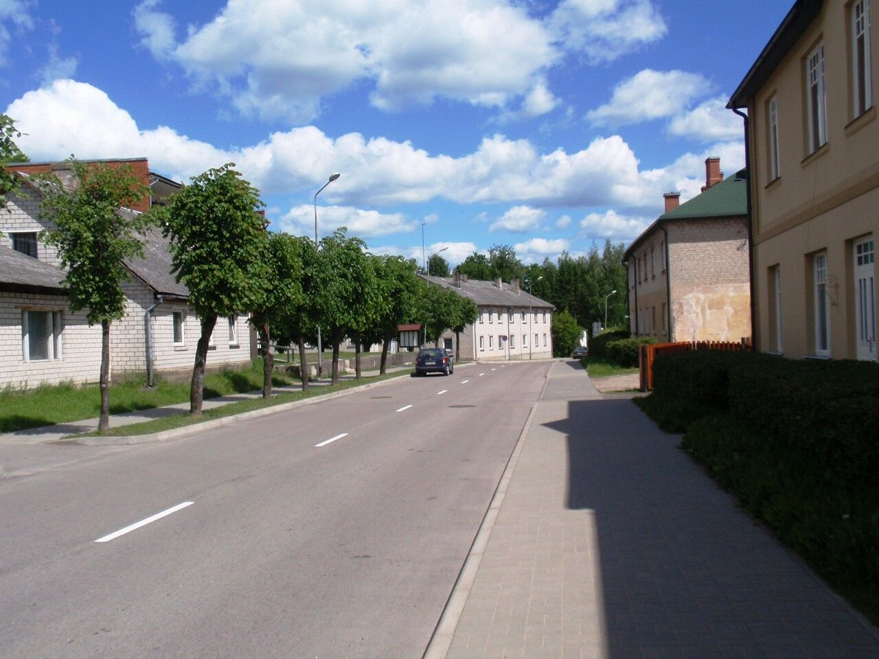 Semināra iela in Valka, Latvia.